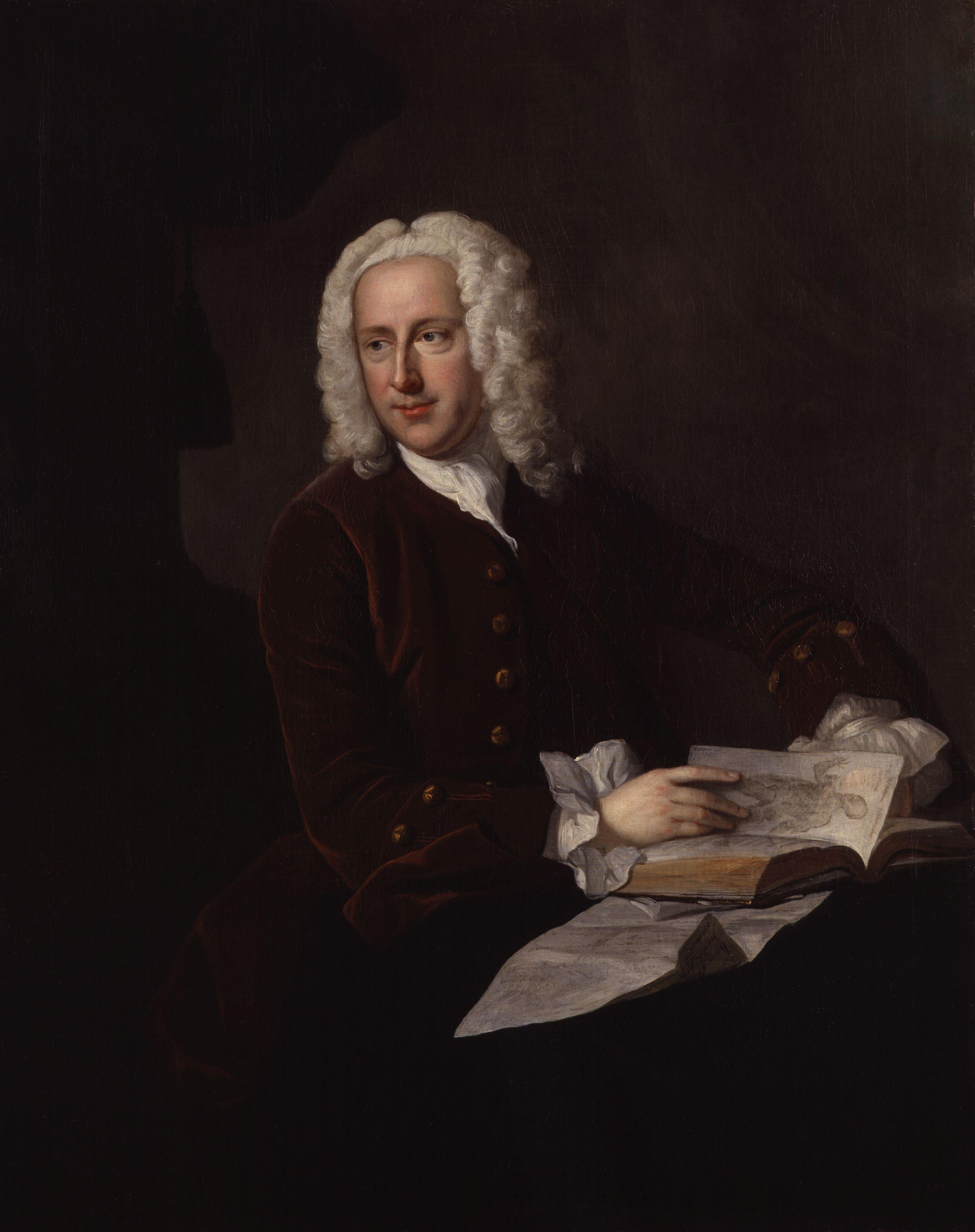 Frank Nicholls, by Thomas Hudson (died 1779). All images in this batch have been confirmed as author died before 1939 according to the official death date listed by the NPG.